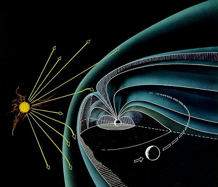 The shape of the magnetosphere during magnetospheric substorms with the input of the solar wind